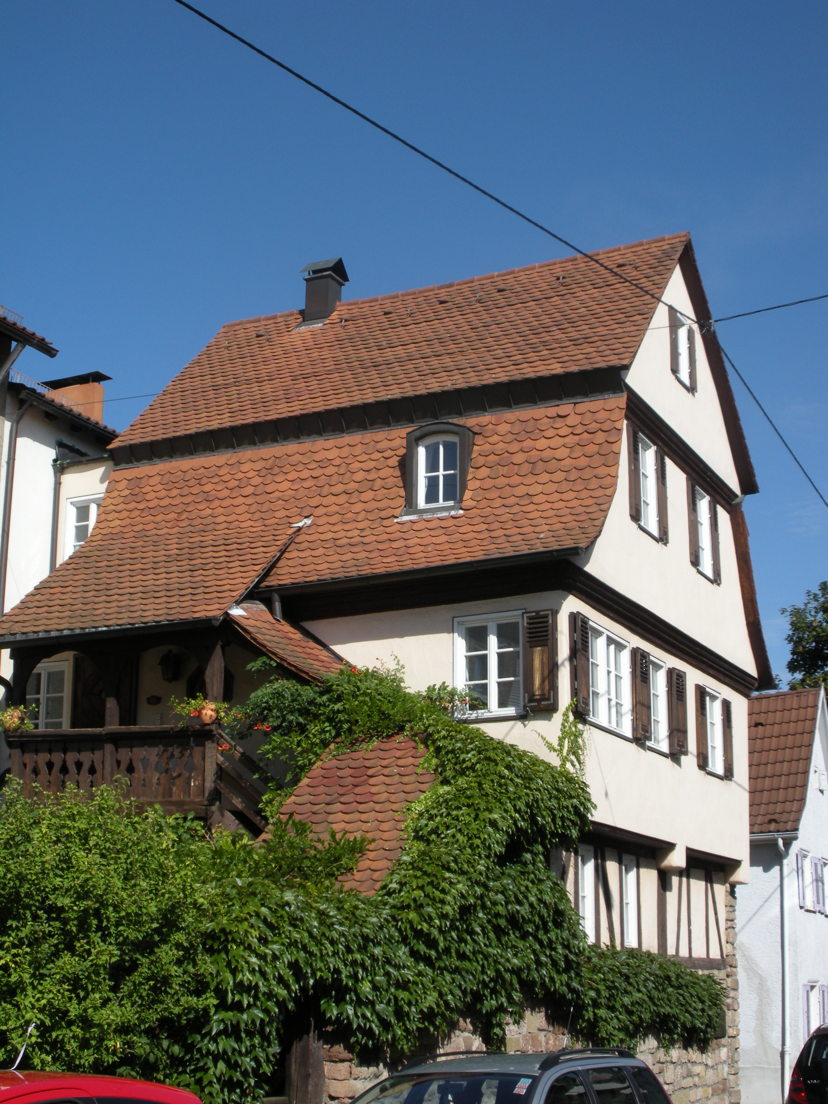 Old House in Stuttgart-Gaisburg